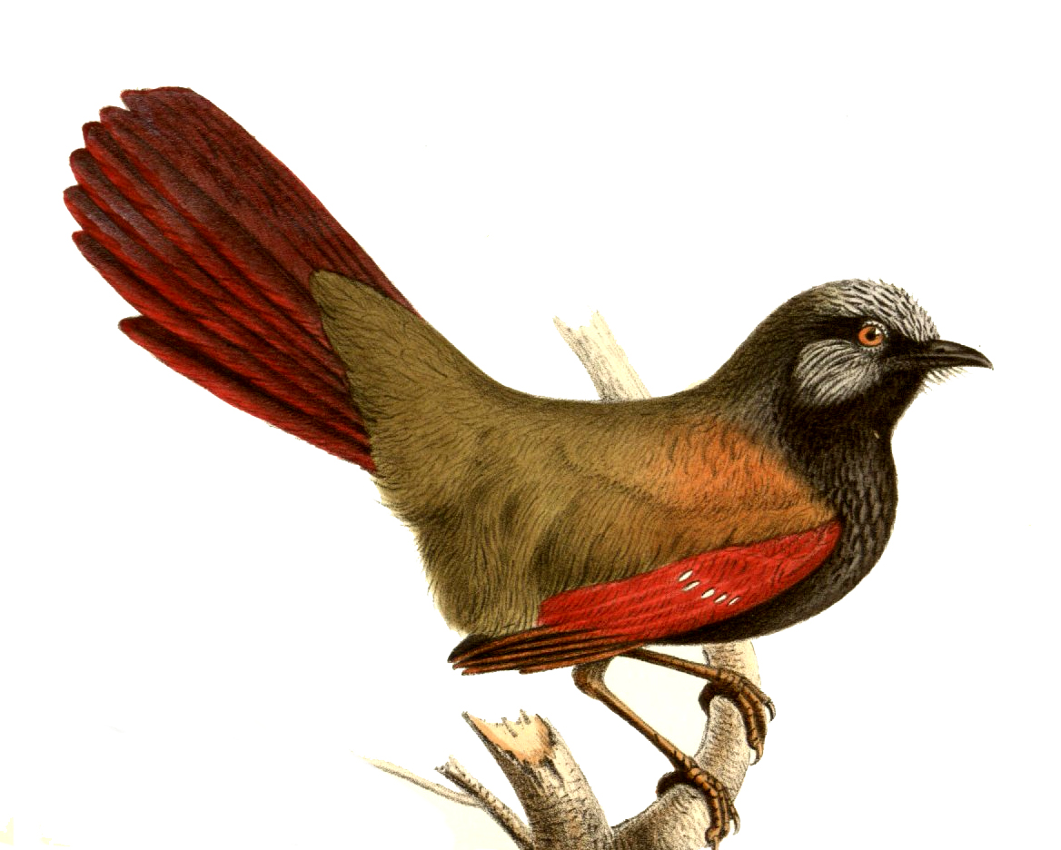 Garrulax formosus